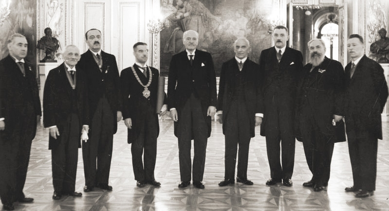 President of Poland Ignacy Mościcki and official delegation of the City of Lwów